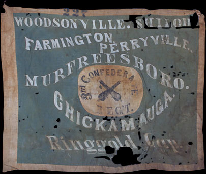 Hardee Pattern Flag belonging to the 3rd Confederate Infantry Regiment, also known as Marmaduke's 18th Arkansas Infantry Regiment, Old State House Museum Collection